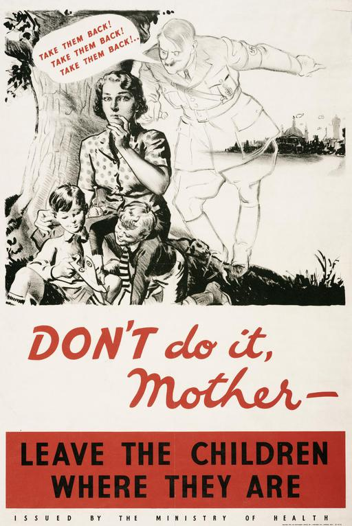 Don't do it Mother whole: the image is placed in the upper half, incorporating a speech bubble that contains text in red. Text is positioned below, in red, with further text, placed at the bottom, in black set within a horizontal red rectangle. All is up against a plain white background. image: a monchrome image of an anxious looking mother sitting by the trunk of a tree in a rural scene with two young boys playing with a model aeroplane. A ghost-like figure of Hitler whispers to mother and points towards the city shown in the distance to the right. A speech bubble emerges from his mouth. text: TAKE THEM BACK! TAKE THEM BACK! TAKE THEM BACK! ... DON'T do it Mother - LEAVE THE CHILDREN WHERE THEY ARE ISSUED BY THE MINISTRY OF HEALTH